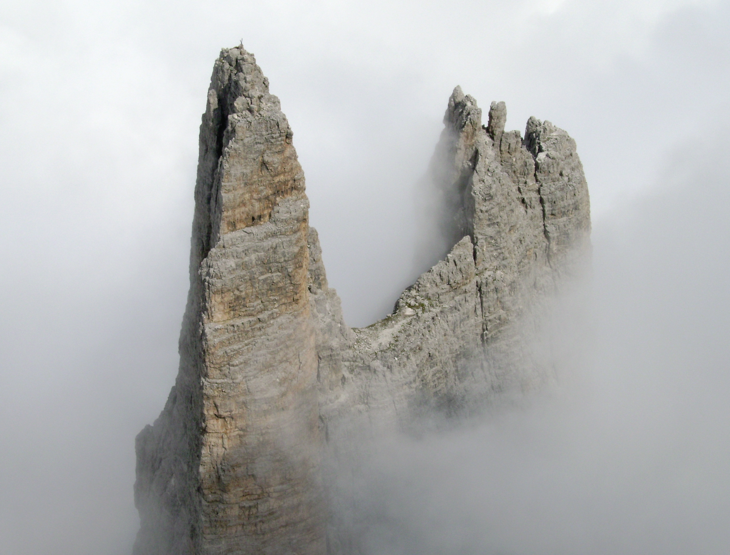 Kleine Zinne seen from Große Zinne